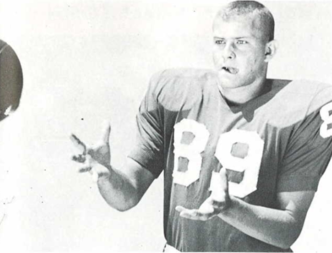 Photograph of Charles Casey